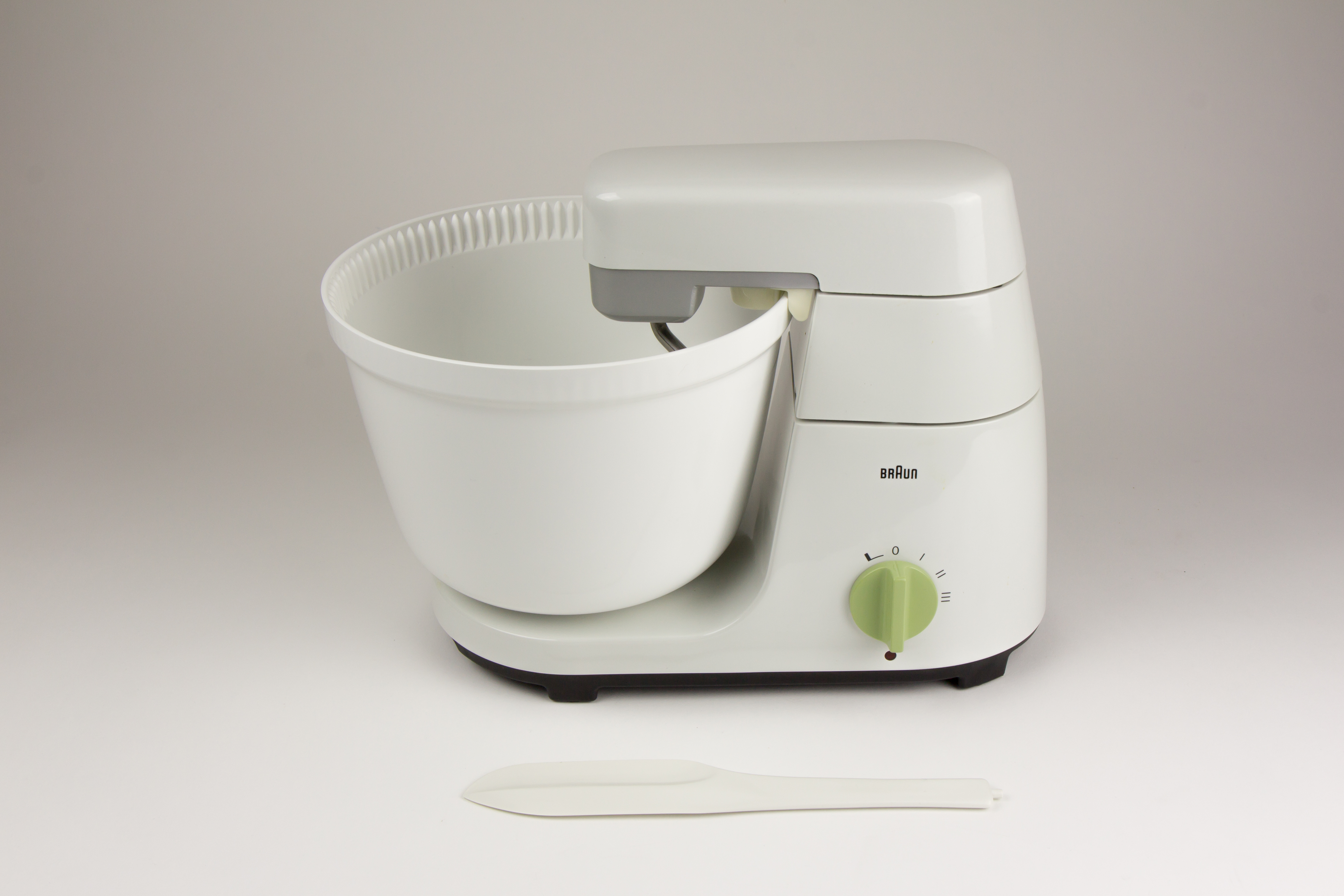 Braun Kitchen Machine (model KM 32) or “food processor“, ca. 1985–1993 Full assembly with bowl and dough hook. Below: spatula